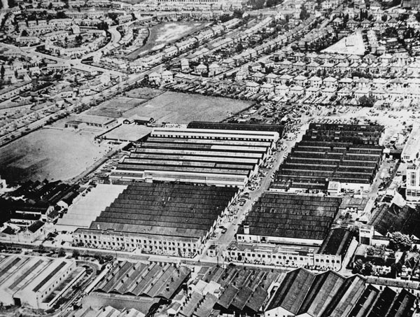 An aerial view of the works of Guy Motors, Fallings Park. The grassed area to the left of the factory complex is the company's sports ground containing a cricket ground, a football pitch and tennis courts. The buildings of the sports club and canteen can also be seen in this area. The image shows clearly the considerably large size of the factory complex.